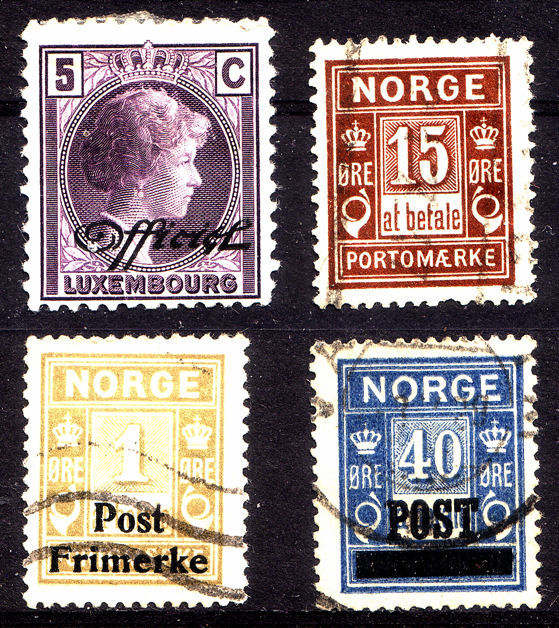 Official stamps of Norway (1, 15, 40 ore) and Luxembourg (5 centimes) with overprints